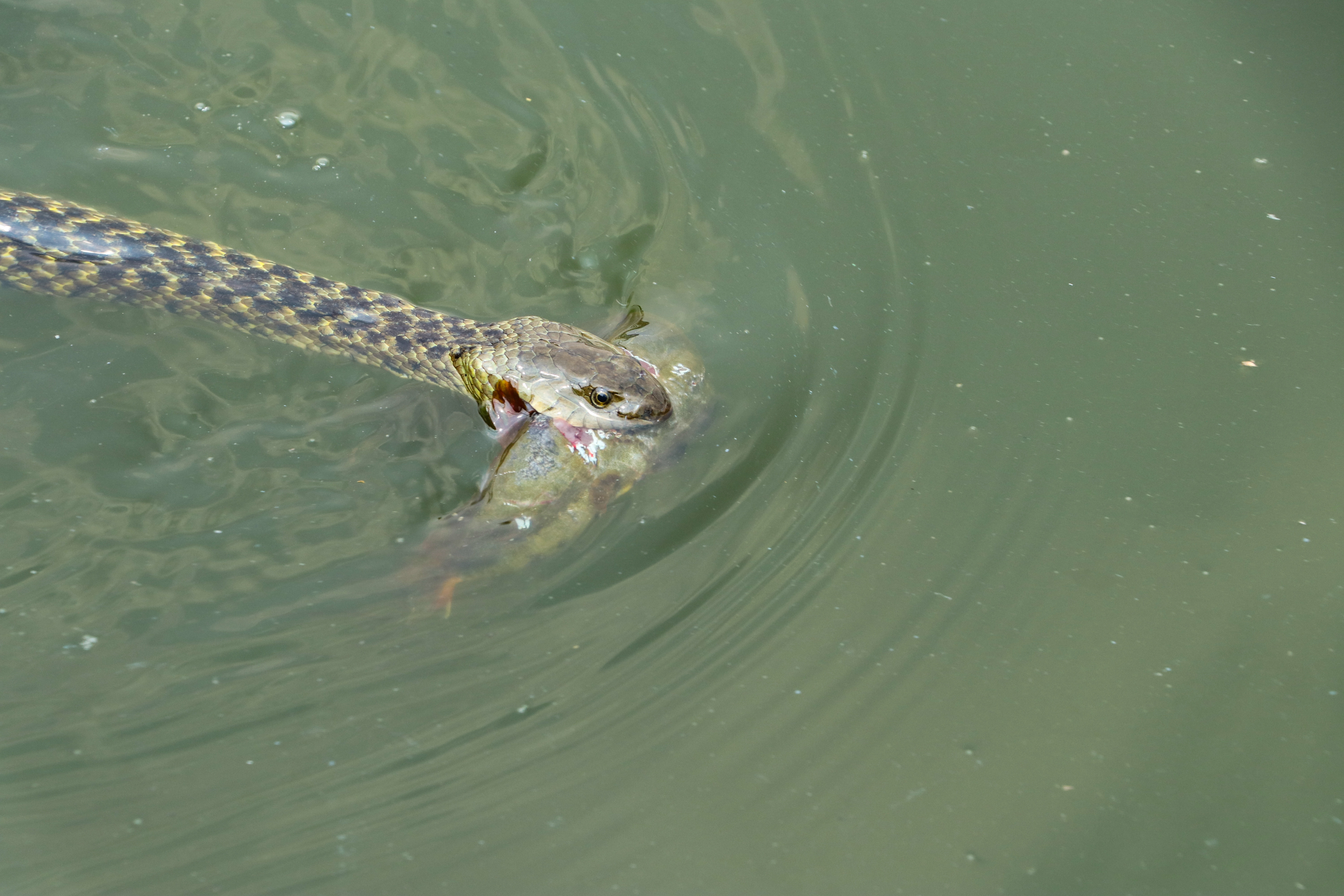 The checkered keelback, also known commonly as the Asiatic water snake, is a common species of nonvenomous snake which can often be seen at Taudaha lake.